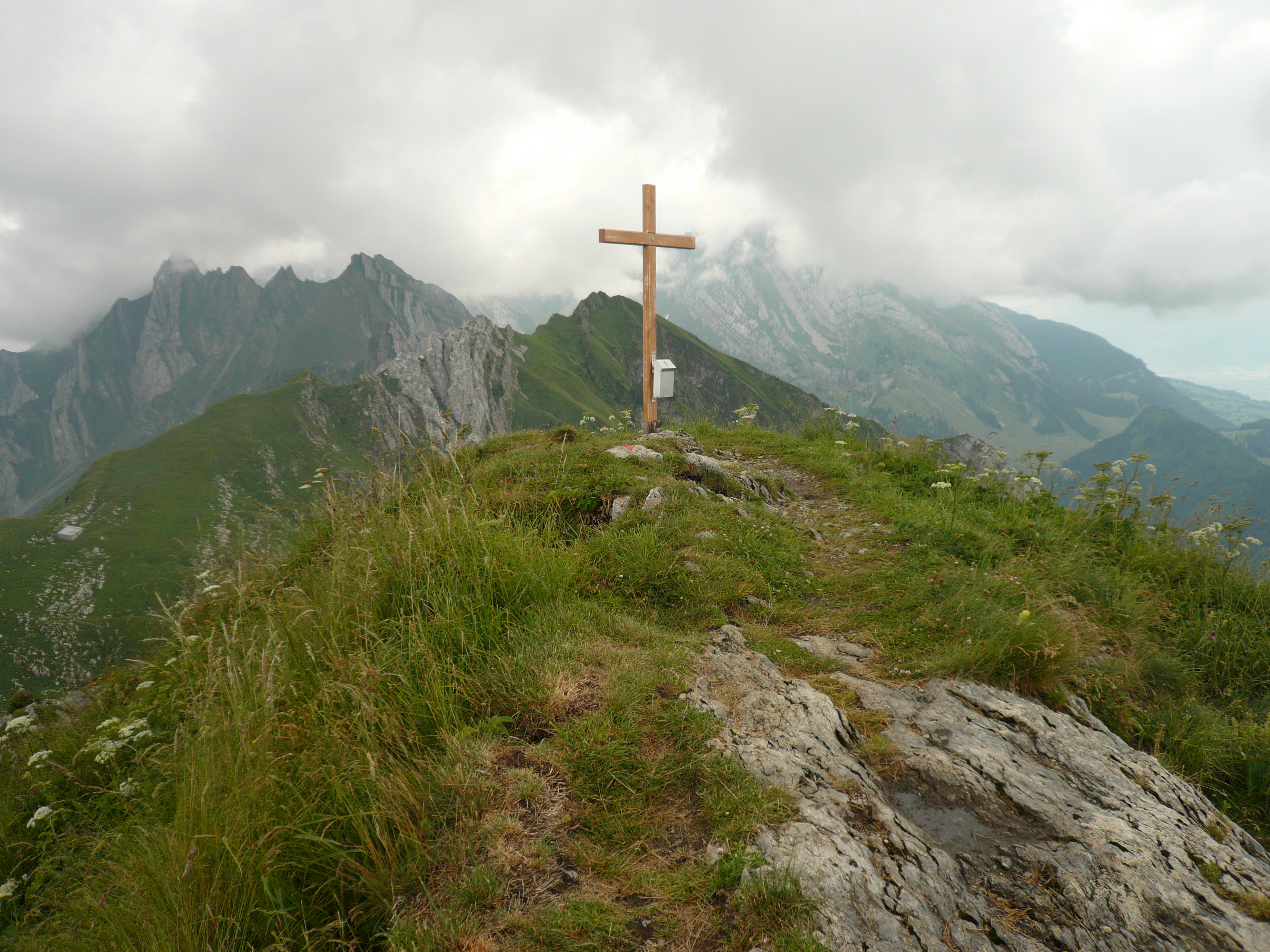 Mountain Luetispitz, Switzerland